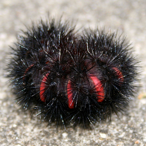 Hypercompe scribonia caterpillar balled up, found in southern New Jersey in November.